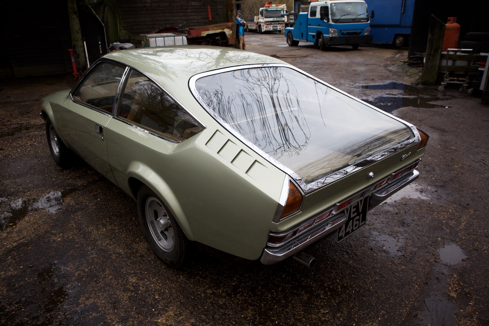 Ford Cirrus, Daily Telegraph Magazine competition car, built by Woodall Nicholson Ltd and Triplex Safety Glass Ltd. Designed by Michael Moore.